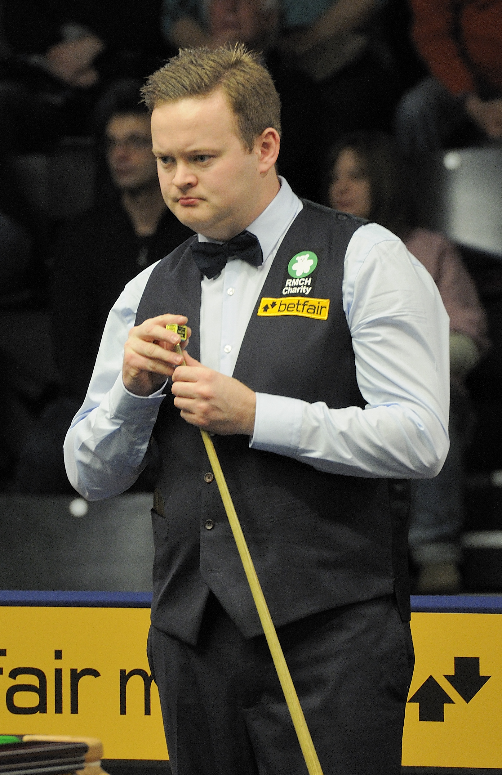 Picture taken in Berlin during the Snooker German Masters in 2013. Shaun Murphy.